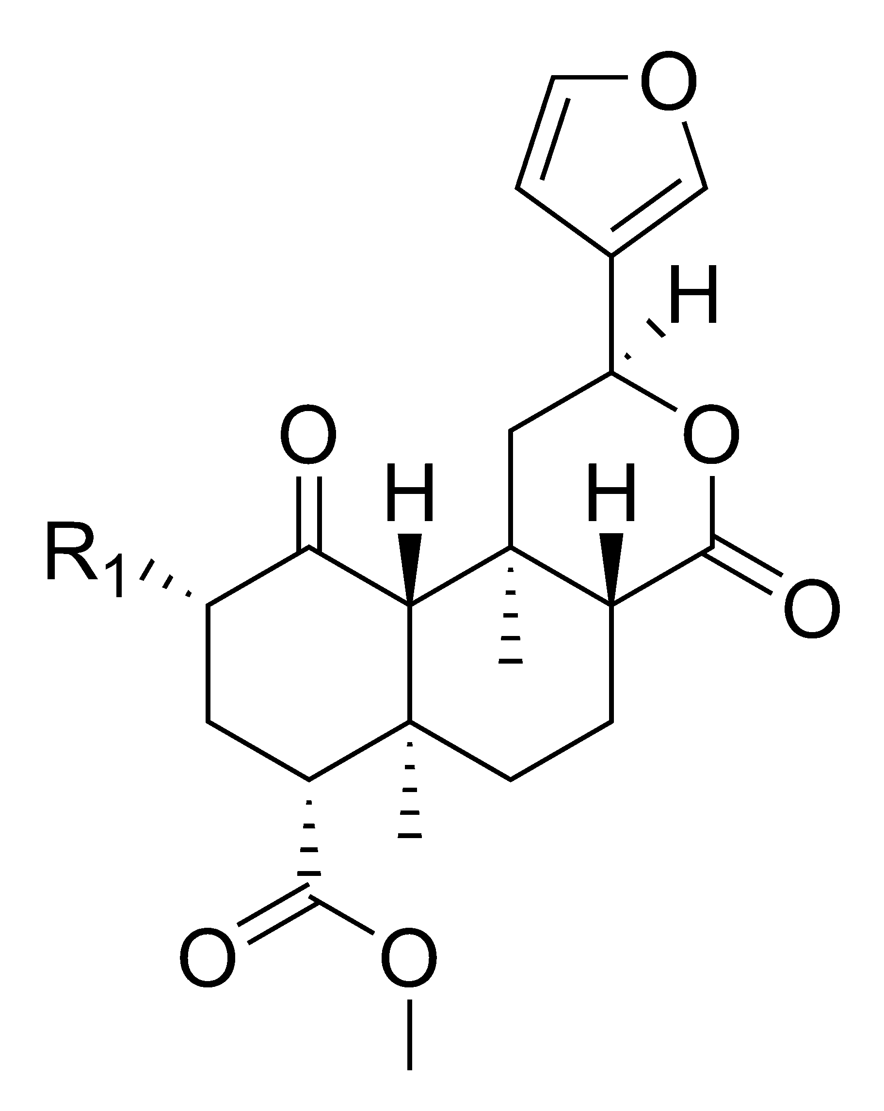 Chemical structure of salvinorin A and B.